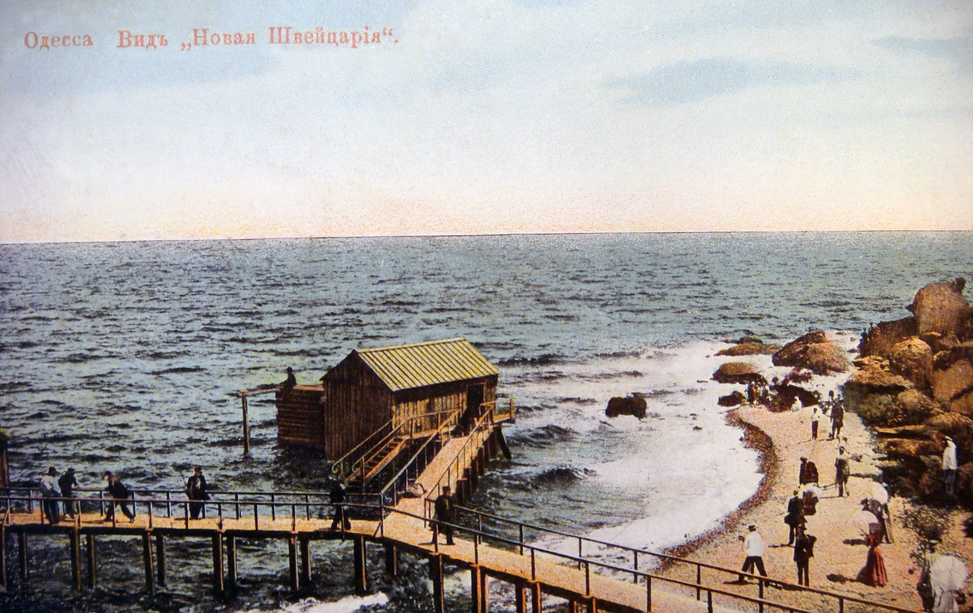 Old Carte Postale. Odessa. Coast of «New Switzerland».